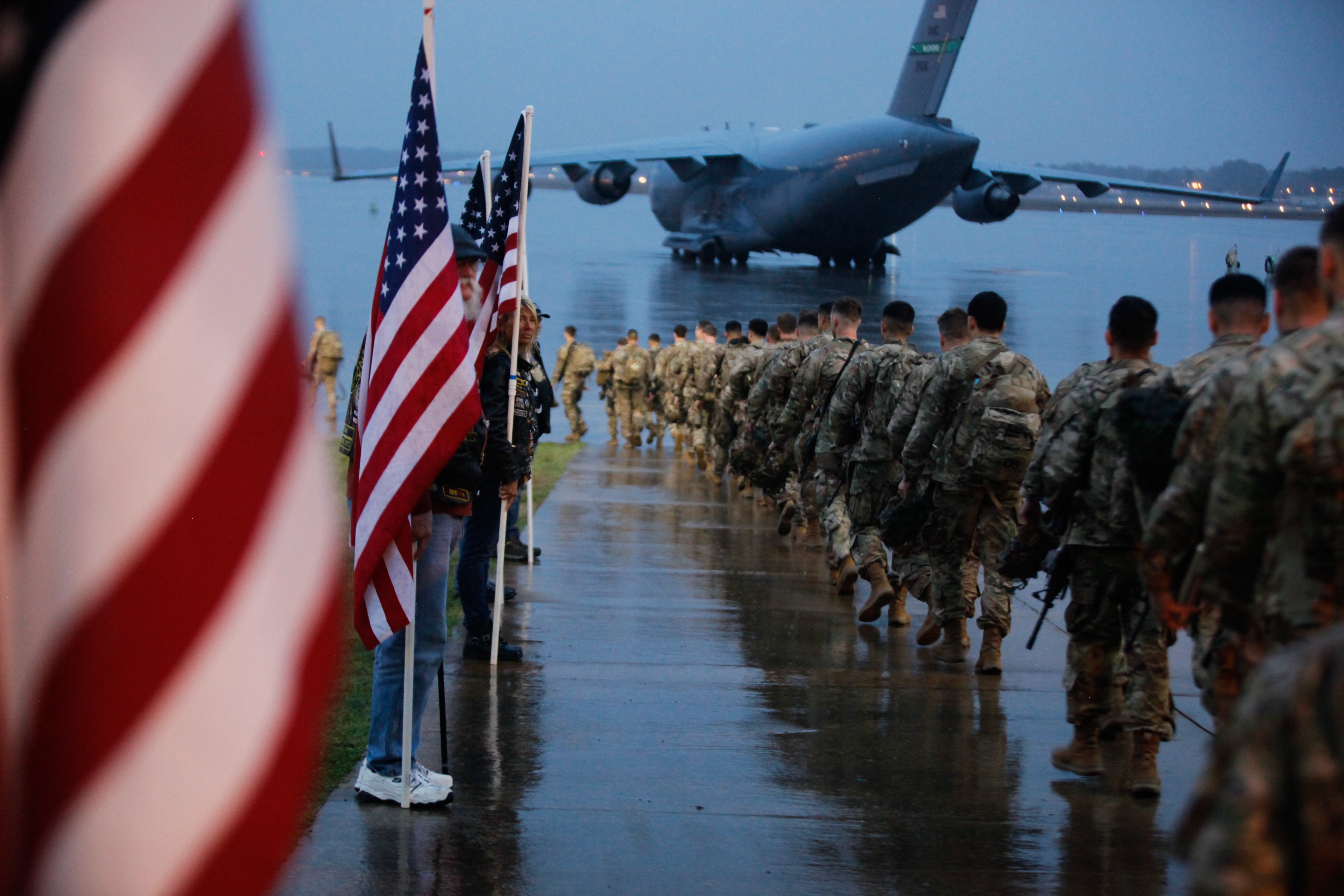 Paratroopers assigned to 1st Brigade Combat Team, 82nd Airborne Division prepare equipment and load aircraft bound for the U.S. Central Command area of operations from Fort Bragg, N.C. on January 4, 2020. This deployment is a precautionary action taken to respond to increased threat levels against U.S. personnel and facilities. The 'Devil' Brigade is the nucleus of the U.S. Immediate Response Force, capable of rapidly deploying anywhere in the world in response to a variety of contingency operations. (U.S. Army Photo by Spc. Hubert Delany III)